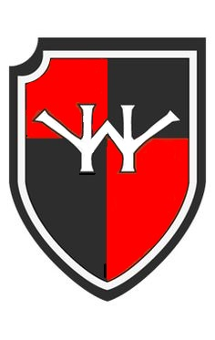 Emblem for the German ZG 26 fighter wing in World War II